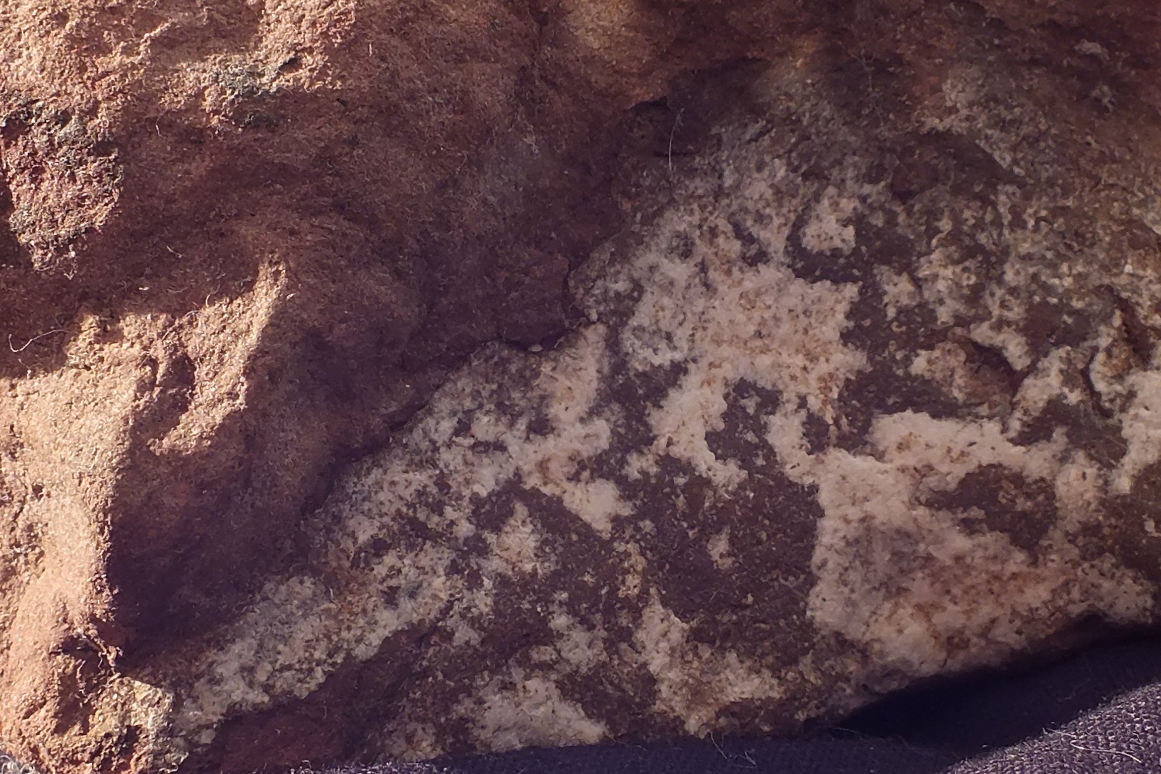 Scarbroite Dimensions: 59 mm x 84 mm x 55 mm Locality: South Bay, Scarborough, North Yorkshire, England, UK